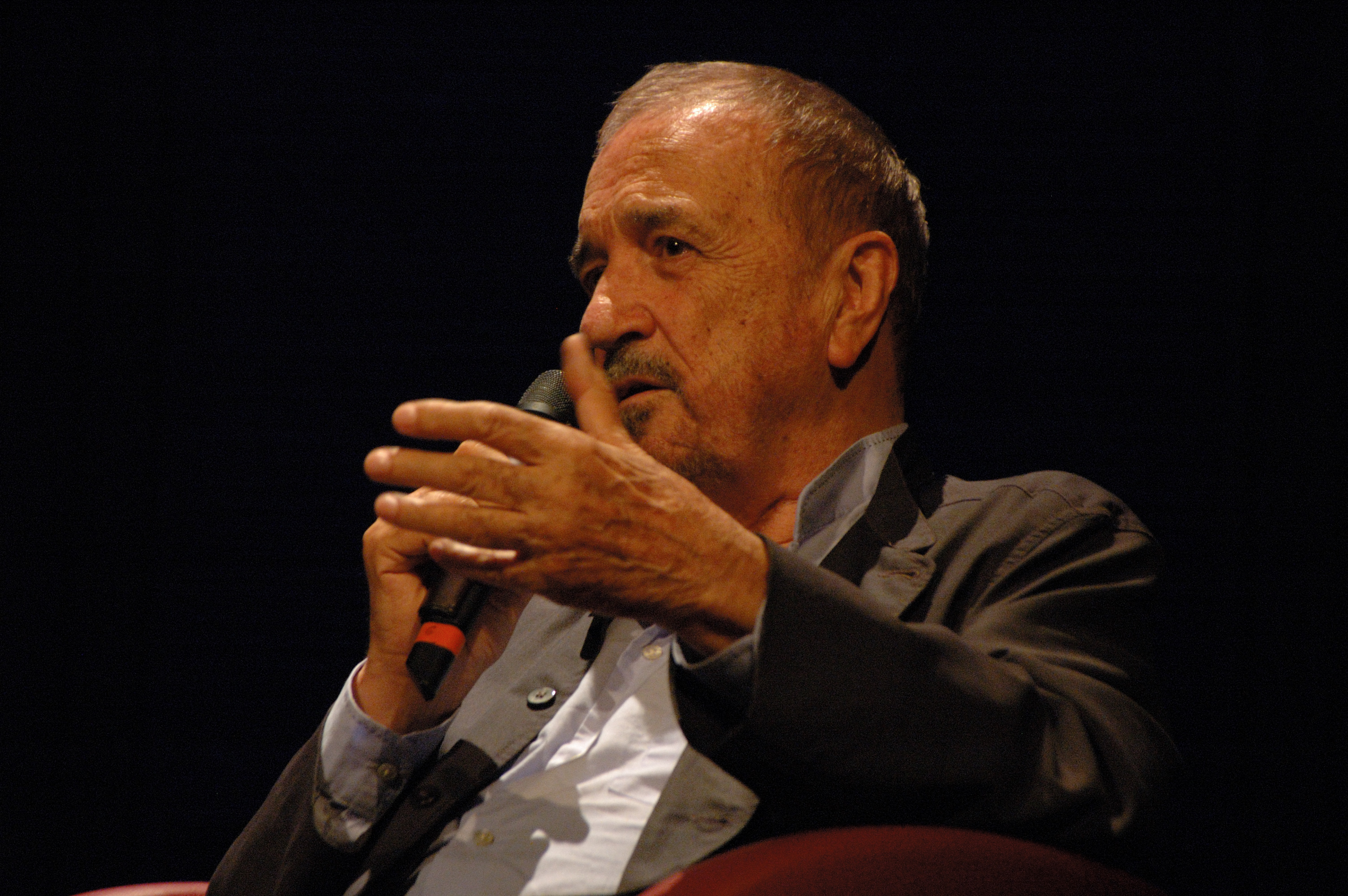 Screenwriter Jean-Claude Carrière giving a lecture on scenario writing at the Bibliothèque Nationale de France during the festival Paris-Cinéma.